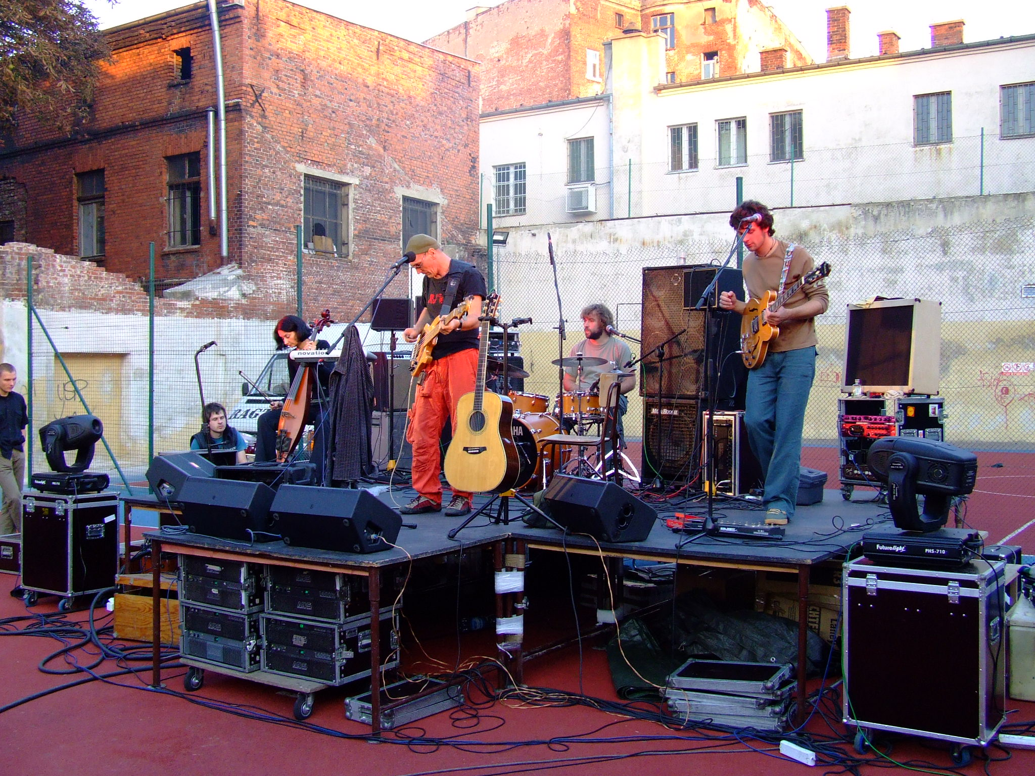 Lech Janerka at concert on 60th anniversary of his secondary school - III LO in Wrocław.